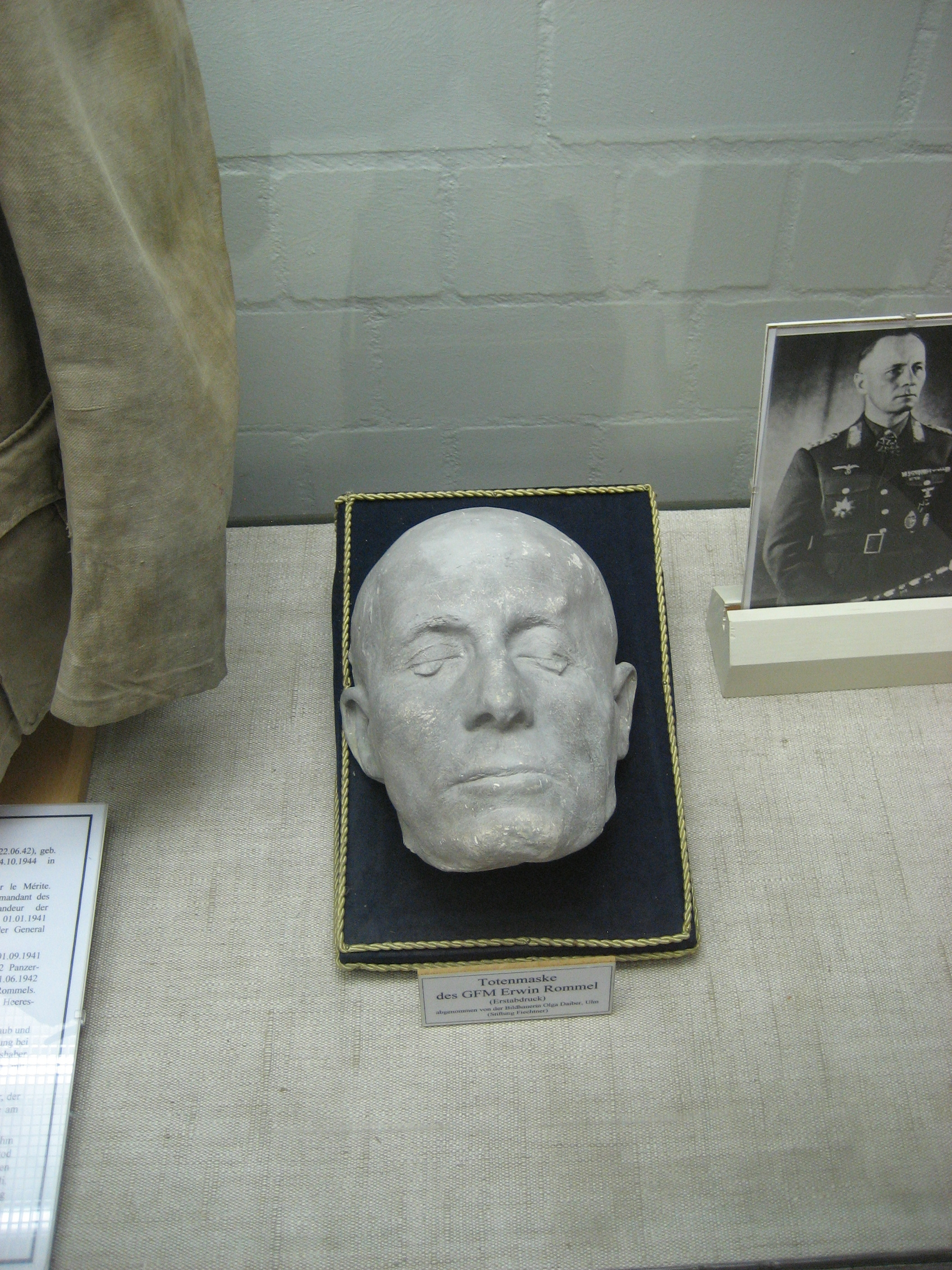 Erwin Rommel death mask